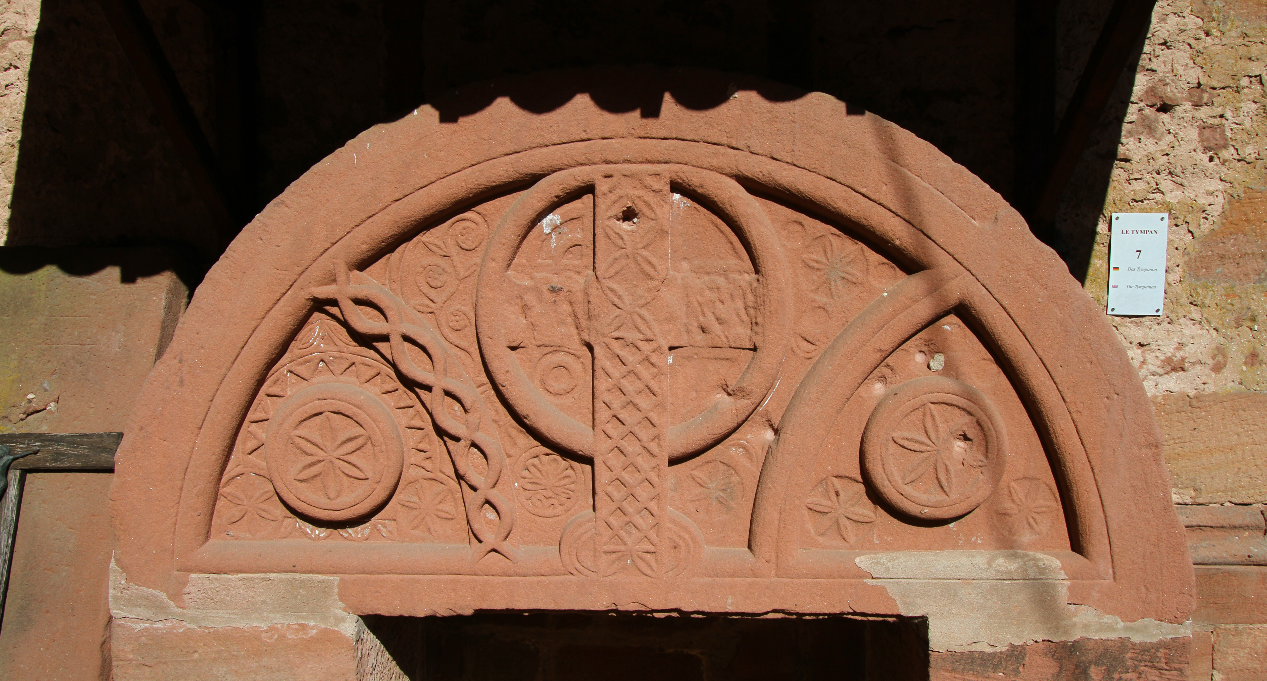 Abbey of Sturzelbronn